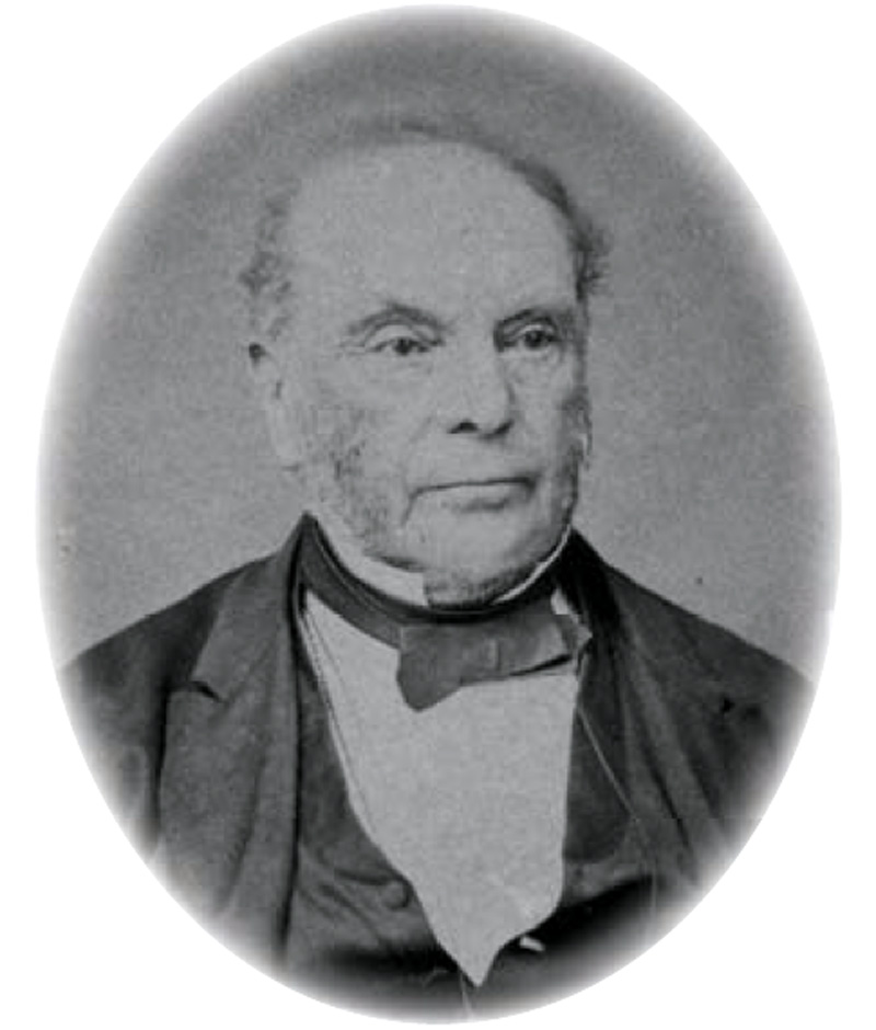 David Ogilvy, owner of Airlie, South Yarra , Melbourne circa 1860